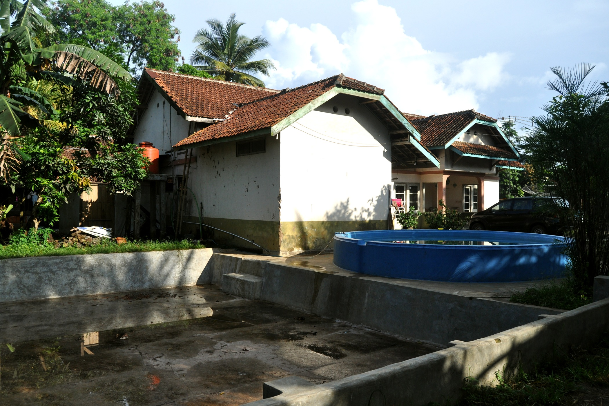 Ex Saketi train station, closed since 1982, in Pandeglang, Province of Banten (Bantam), Indonesia. Main building; now becoming a house.